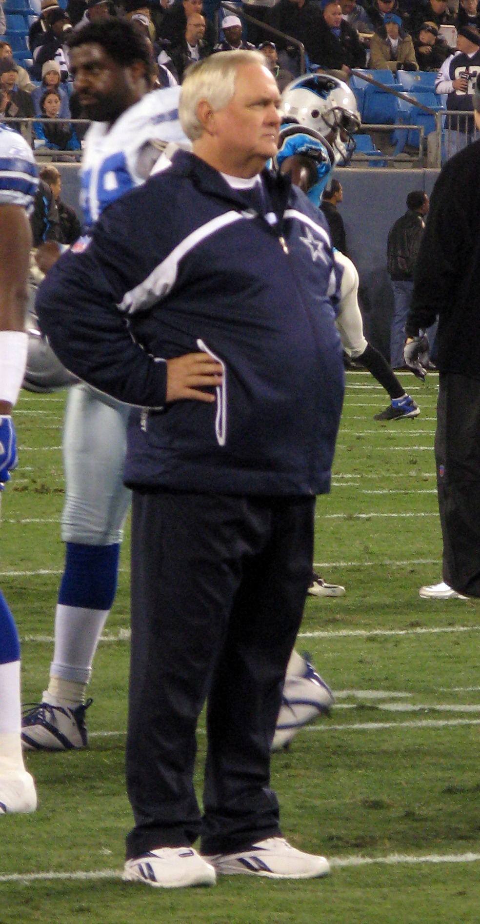 Coach Phillips at a game against the Carolina Panthers at Bank of America Stadium.